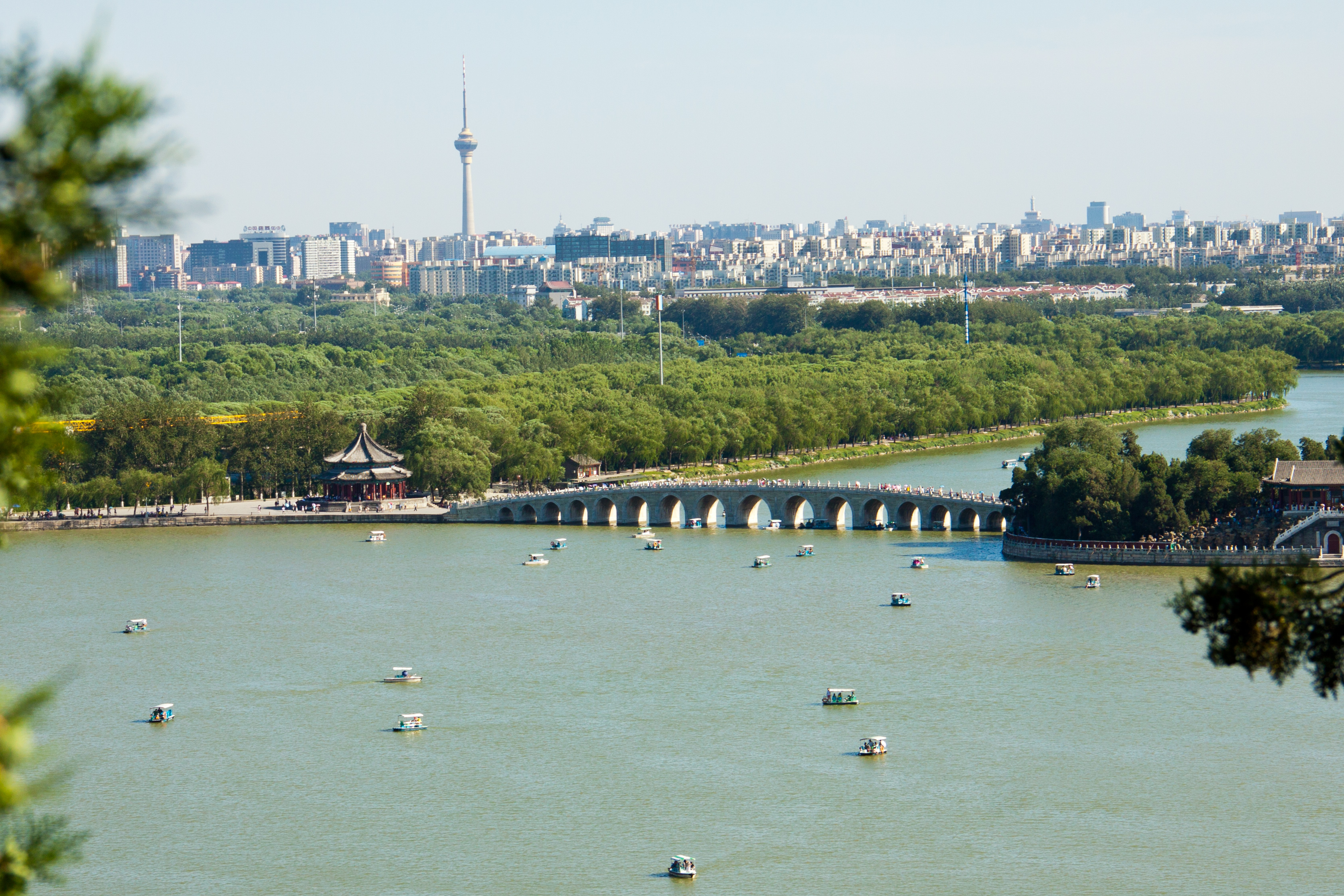 The Haidian District in Beijing